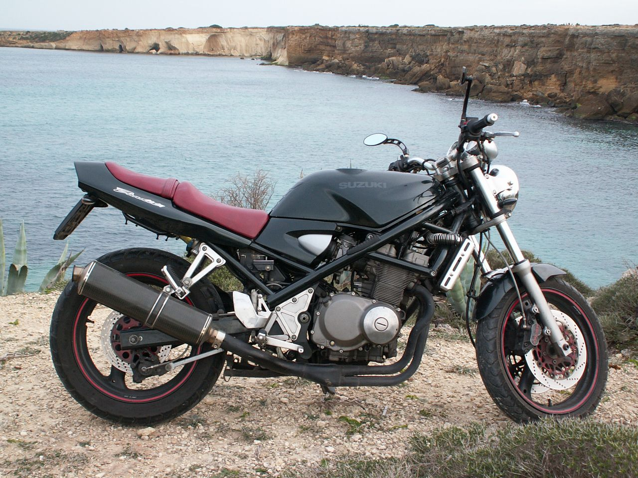 photo of my Suzuki Bandit 400 1992